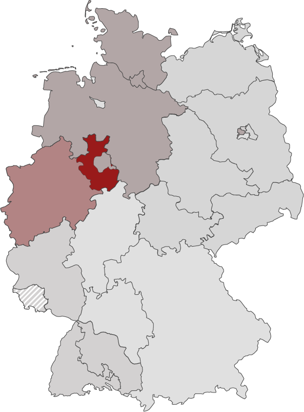 Regierungsbezirk Minden in state of Northrhine-Westfalia, Germany, as of 1947 before being reincorporated as Regierungsbezirk Detmold. Allied Occupation zones illustrated by different grey shadows.